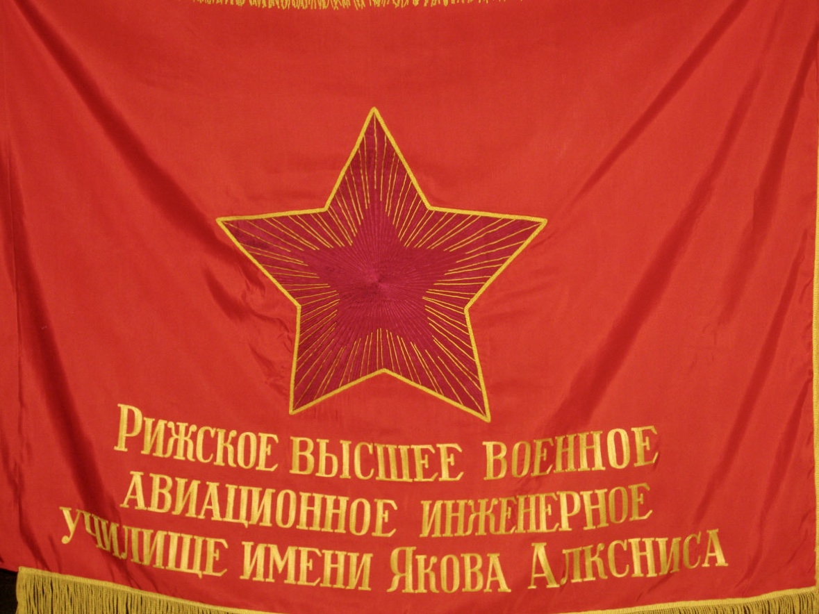 Flag of Riga’s High Military Aviation Engineering School in the museum.